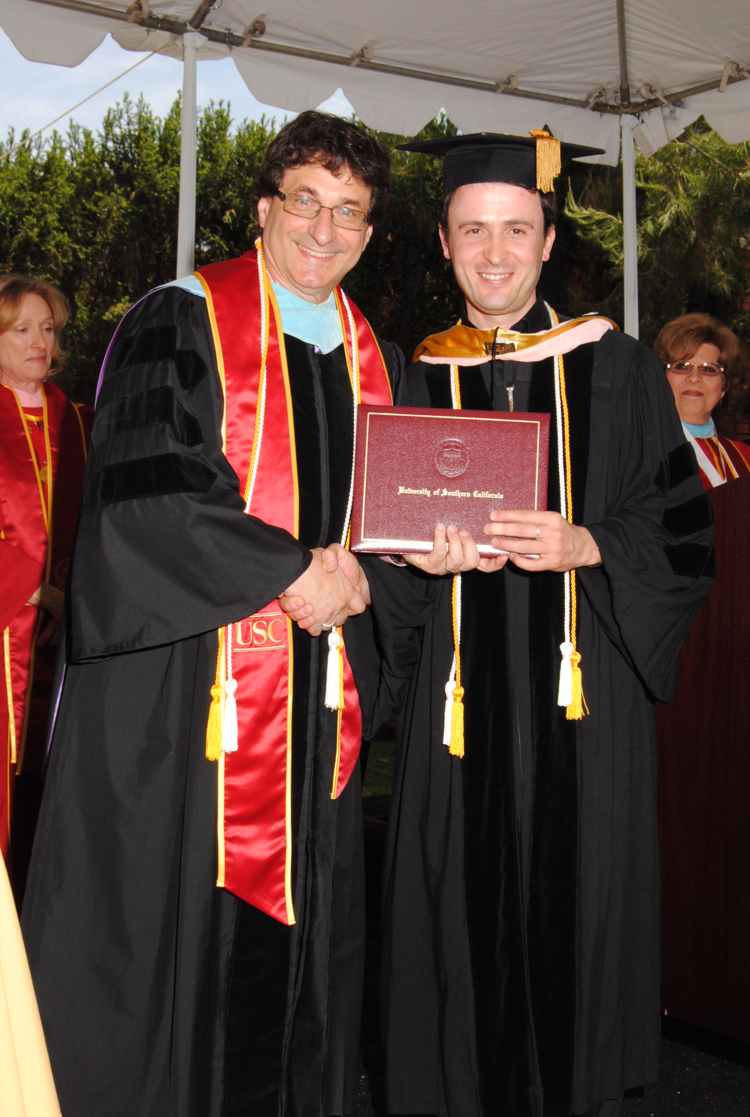 Commencement day on May 13, 2011 University of Southern California, Doctor of Musical Arts degree